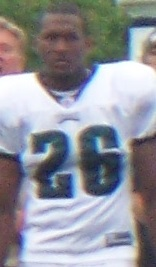 Donovan McNabb plays at a Philadelphia Eagles training camp at Lehigh University, Bethlehem, PA.